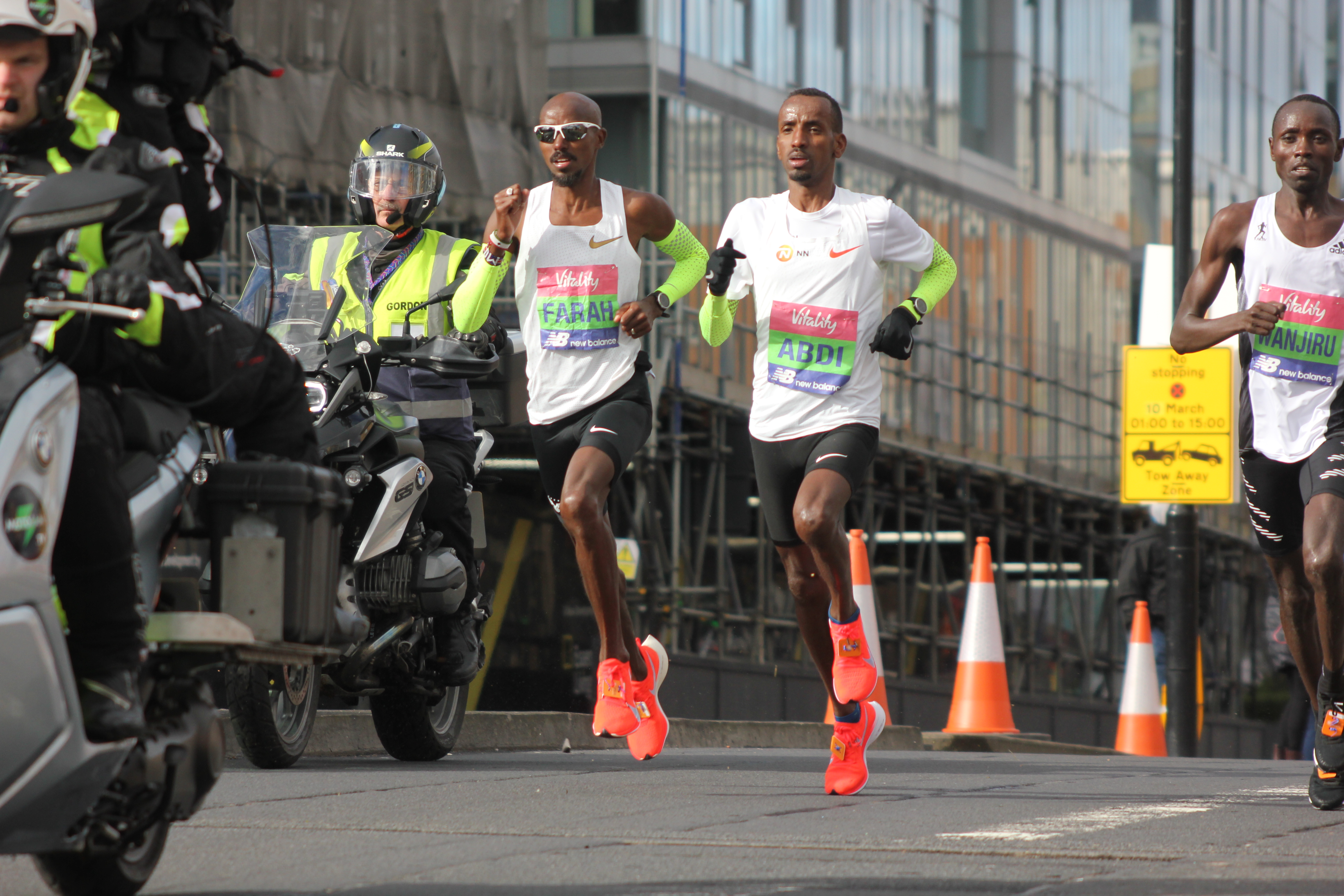 male athletes competing in London Half Marathon, 10 March 2019